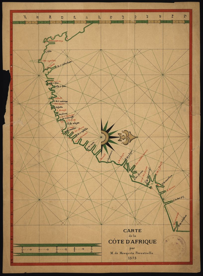 Coastline of Southern Africa from Cape of Good Hope to Inhambane - 35S to 23S